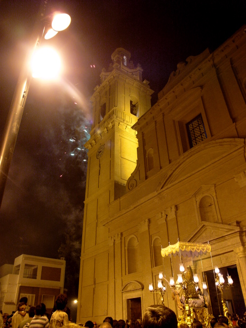 fireworks during the Virgin of Oreto's procession finale at the gates of Saint Andrew's church in L'Alcúdia